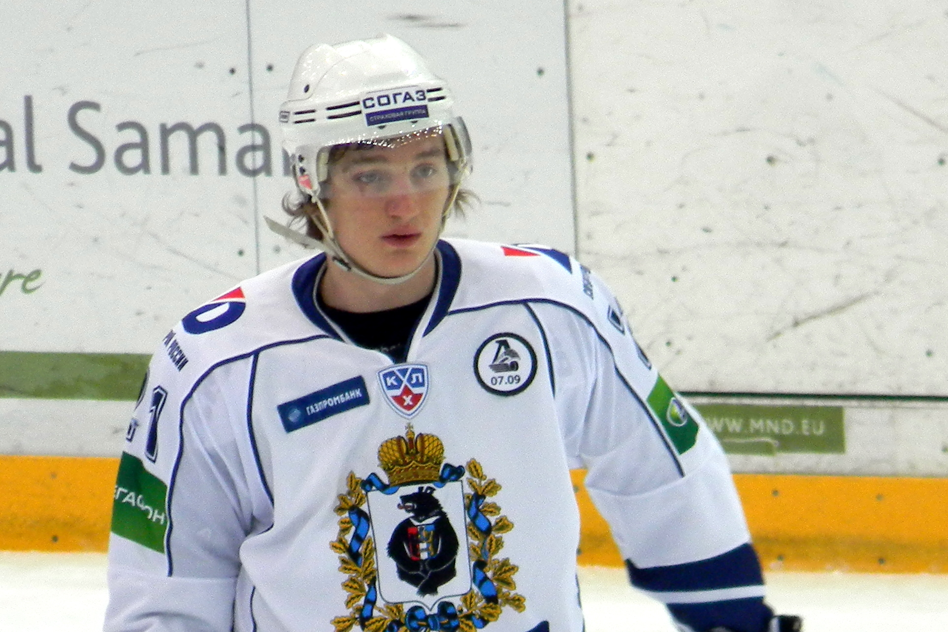 Dmitri Lugin, an ice hockey player from Amur Khabarovsk